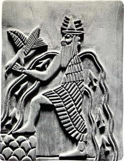 Image of the Sumerian god Enki. Modern reproduction of a detail of the Adda seal (c. 2300 BC)